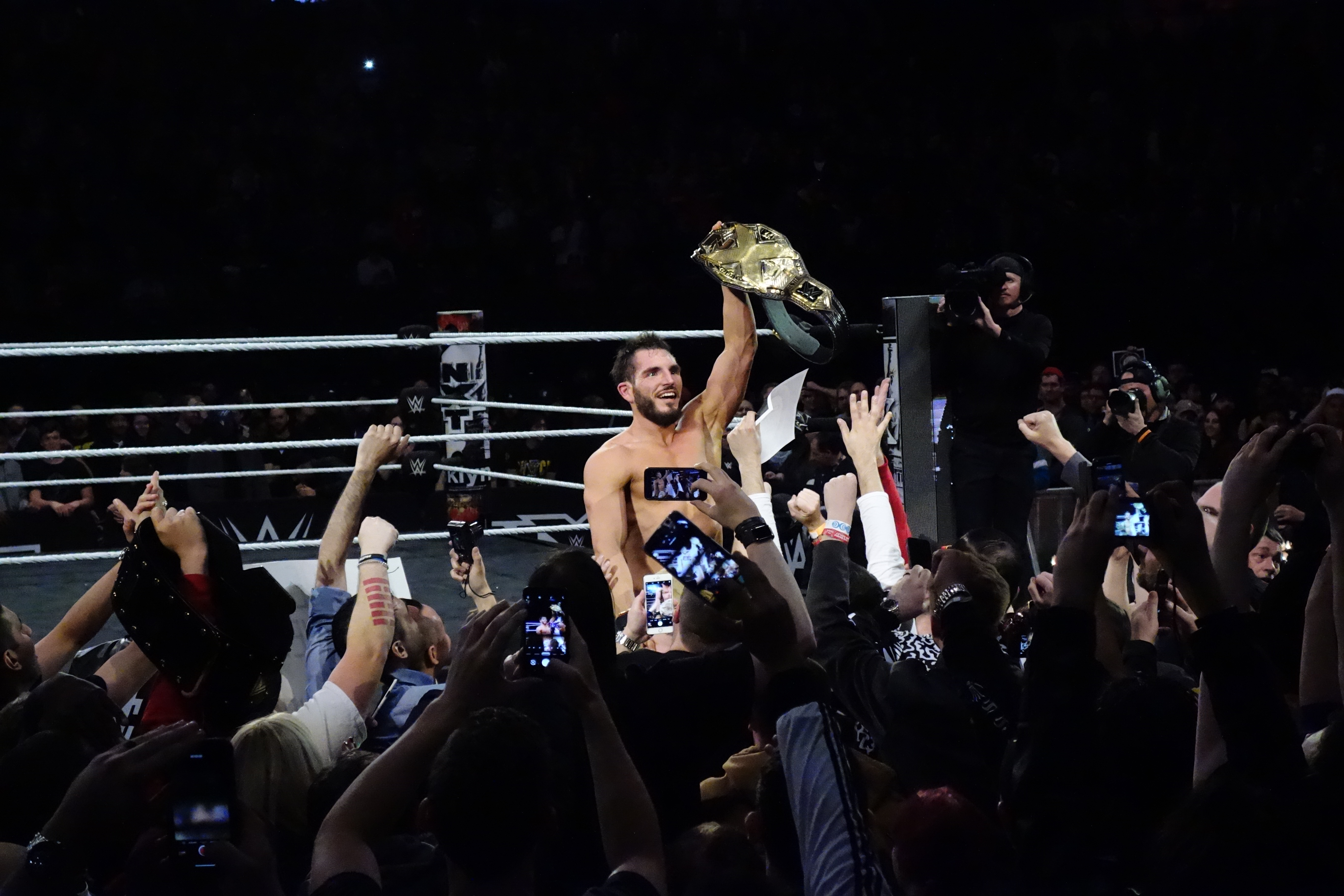 Johnny Gargano célébrant avec le public son titre de champion de la NXT.